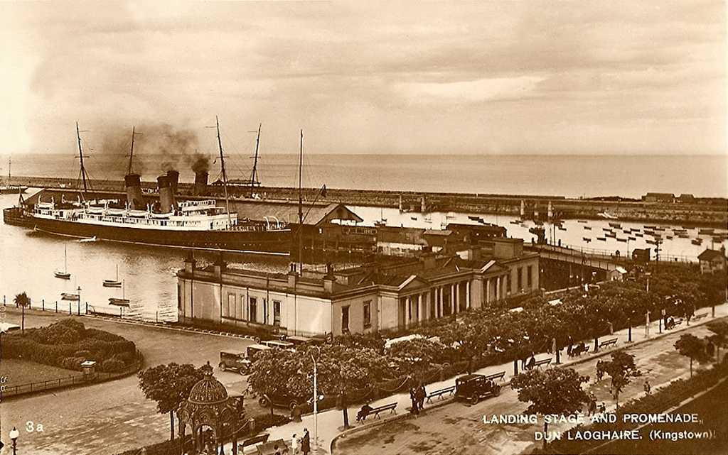 Landing Stage and Promenade, Dun Laoghaire (Kingstown)